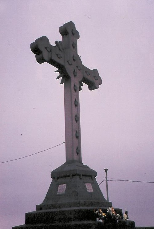 Monumental cross of Cerro San Cristobal - Lima - Peru